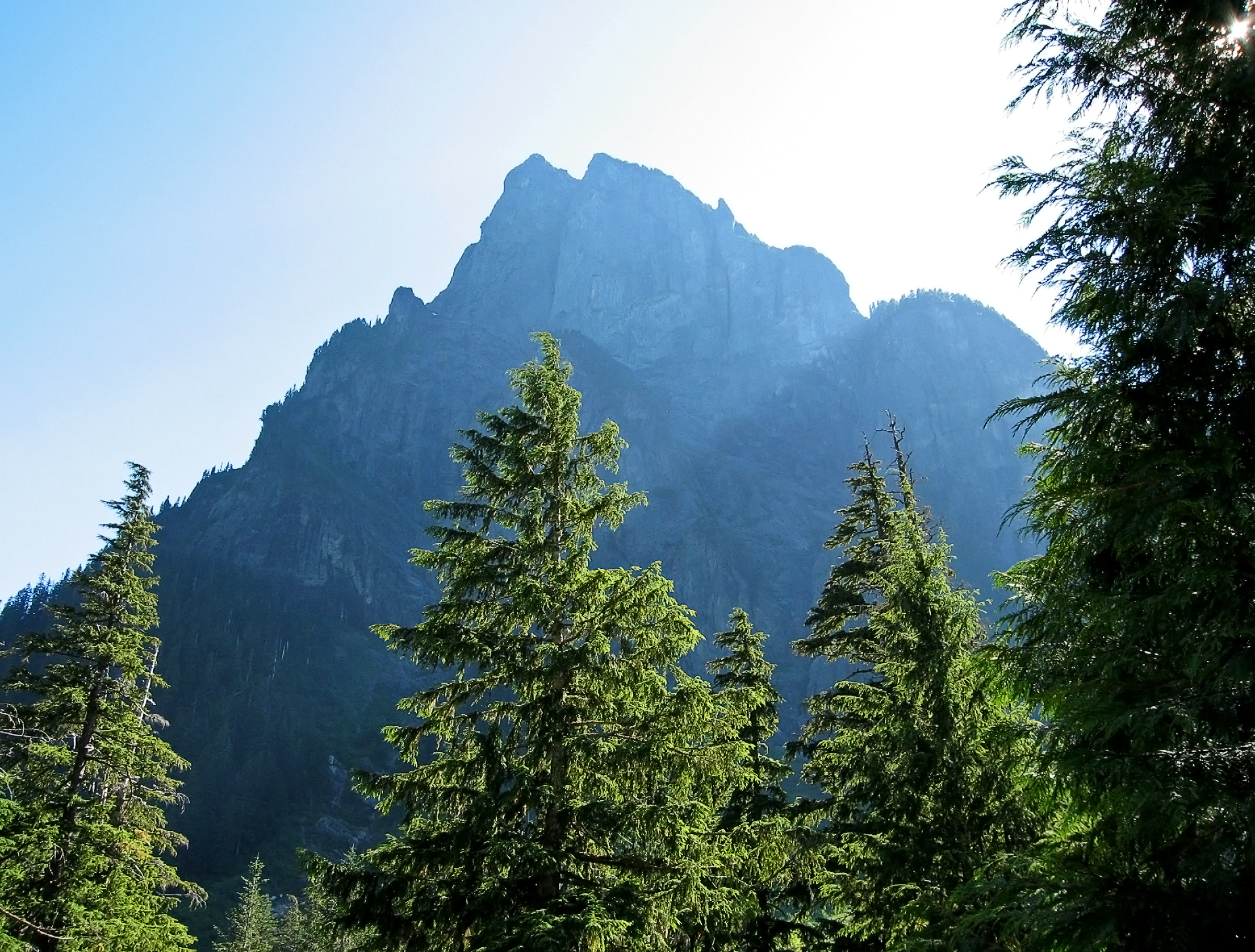 Baring Mountain in the Cascade Range, Washington, as seen from Barclay Lake, looking into the sun. Trees are Tsuga heterophylla, with Thuja plicata foliage at right edge. I, Pfly, took the photo.